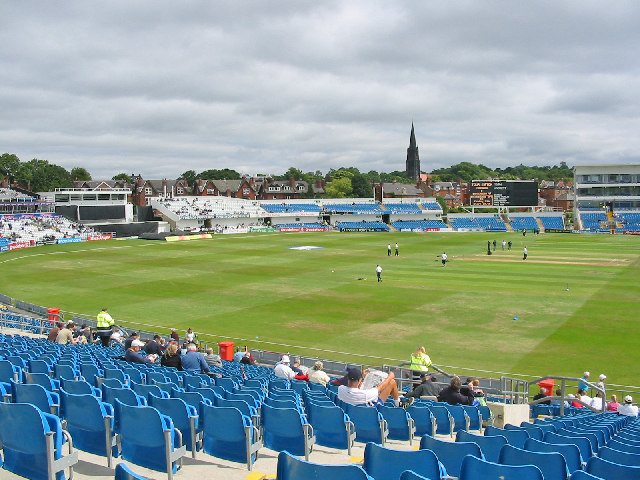 Headingley Cricket Ground. Just before play.